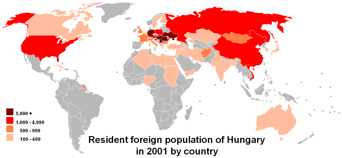 Foreign resident population of Hungary in 2001